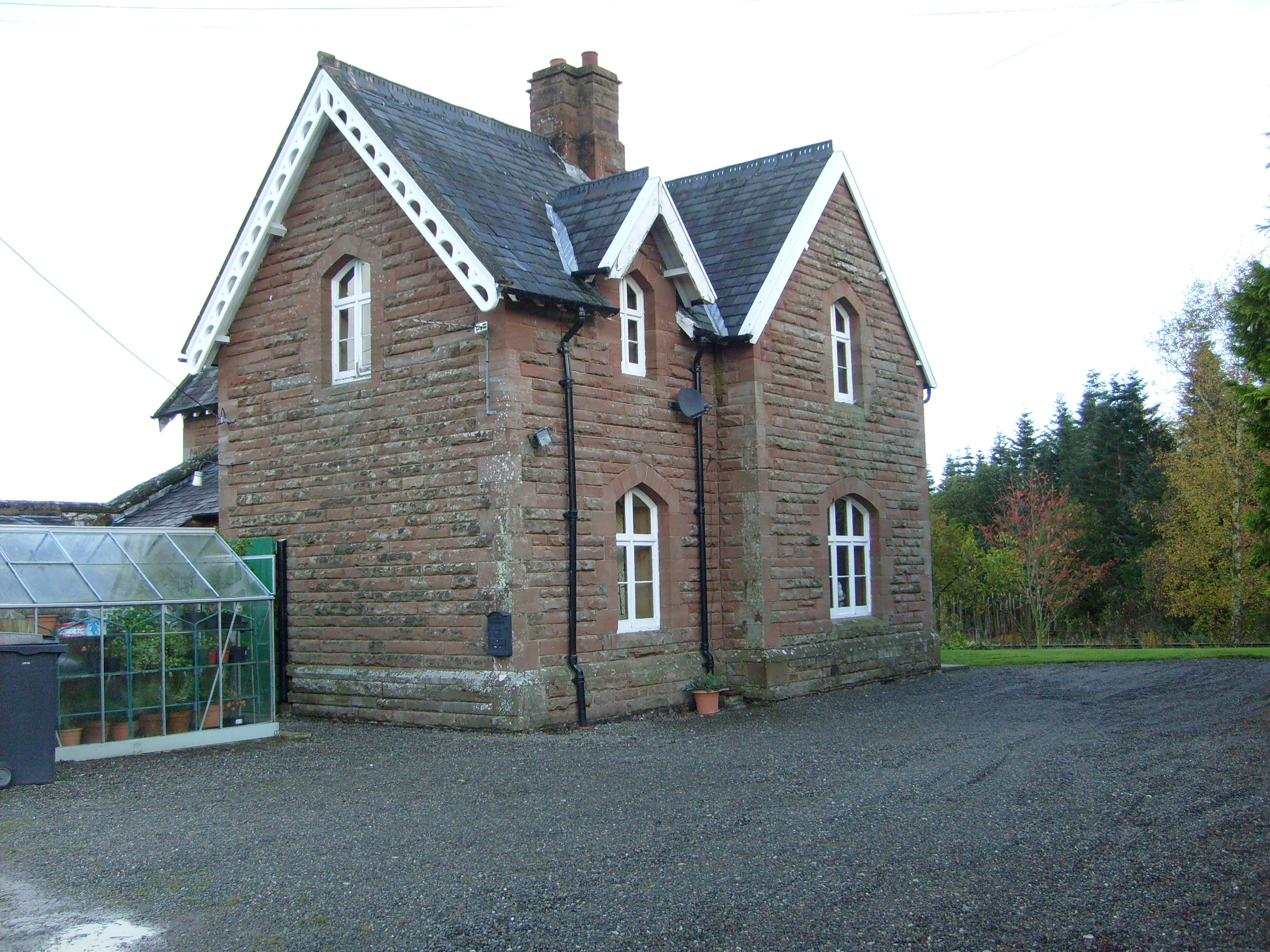 Stationmaster's house at Cotehill